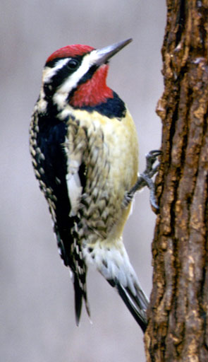 Yellow-bellied Sapsucker, Sphyrapicus varius, male. Location: Durham, North Carolina, United States. Attracted to artificial sap wells (filled with corn syrup) for photography.